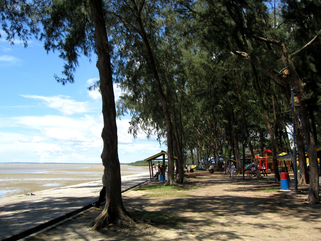 Port Dickson, Malaysia